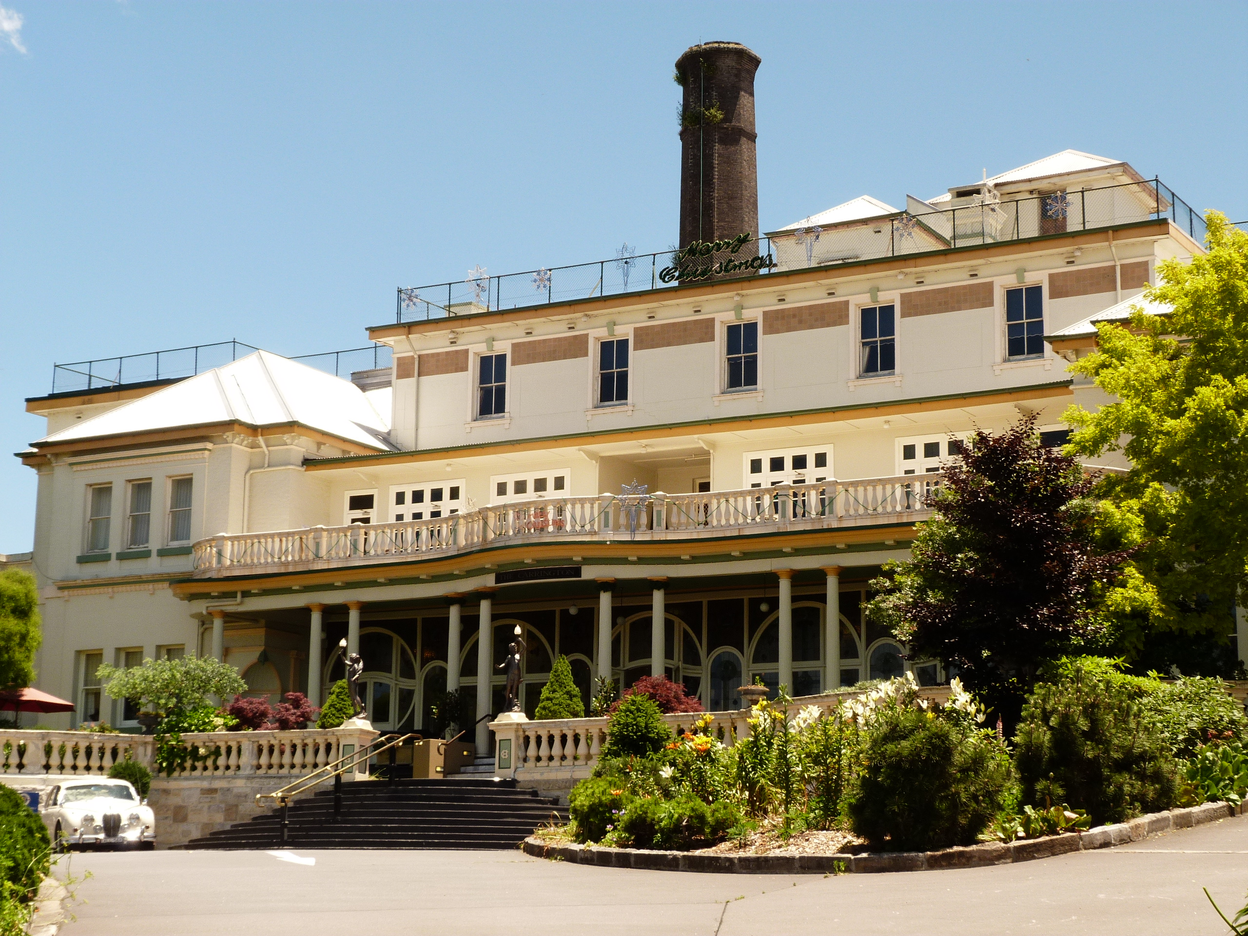 carrington hotel, katoomba, australia